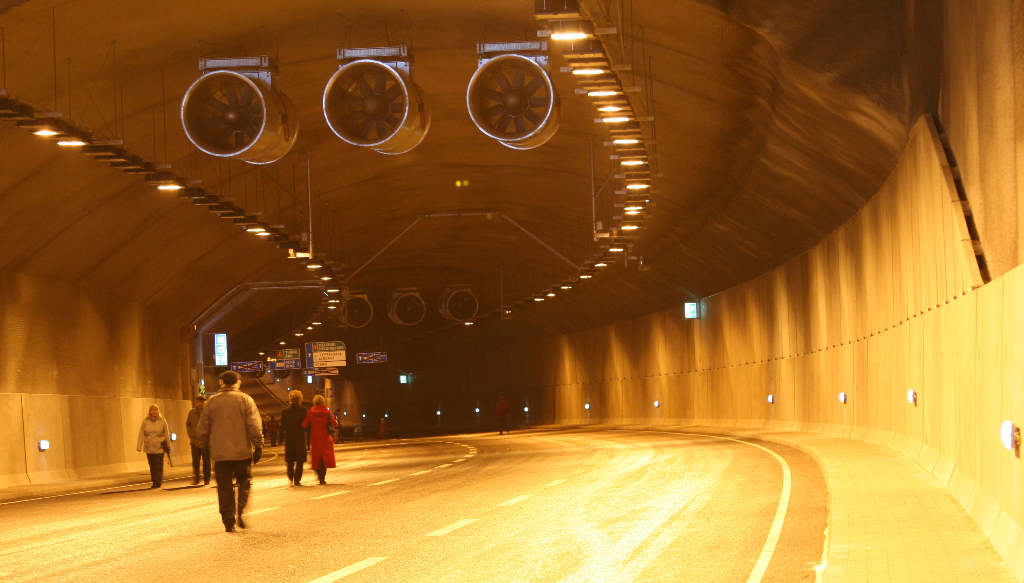 Mestarintunneli, westbound. Open doors day. It's a road tunnel on Kehä I (regional route 101) in Leppävaara, Espoo, Finland